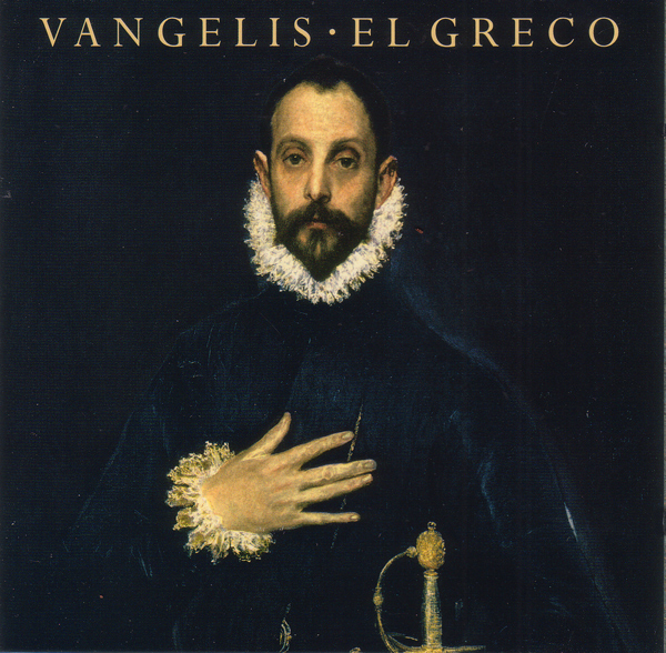 Album cover art of El Greco (album) by Vangelis